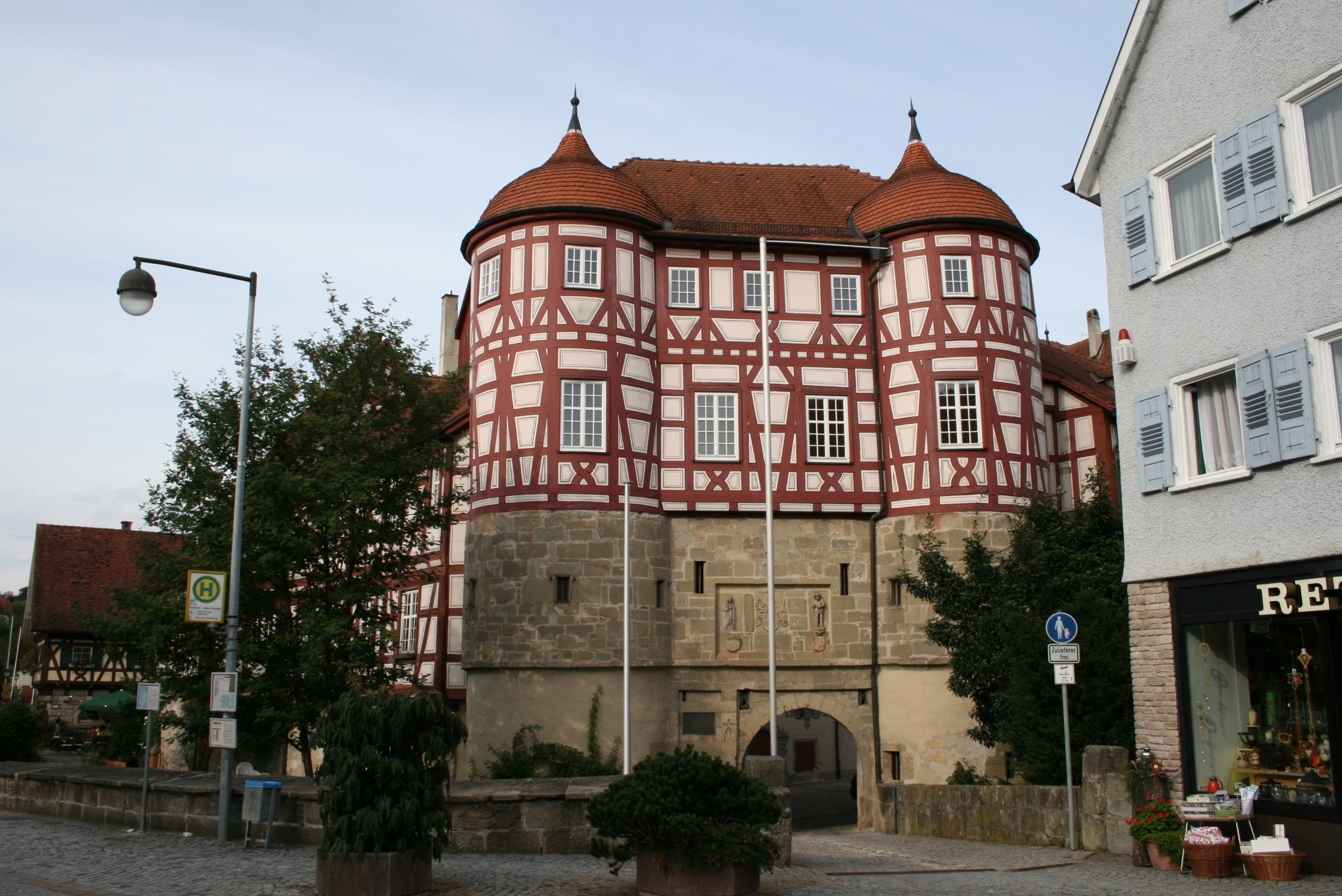 Gaildorf, Old Castle